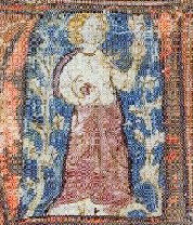 Elias Cairel from a 13th-century chansonnier.